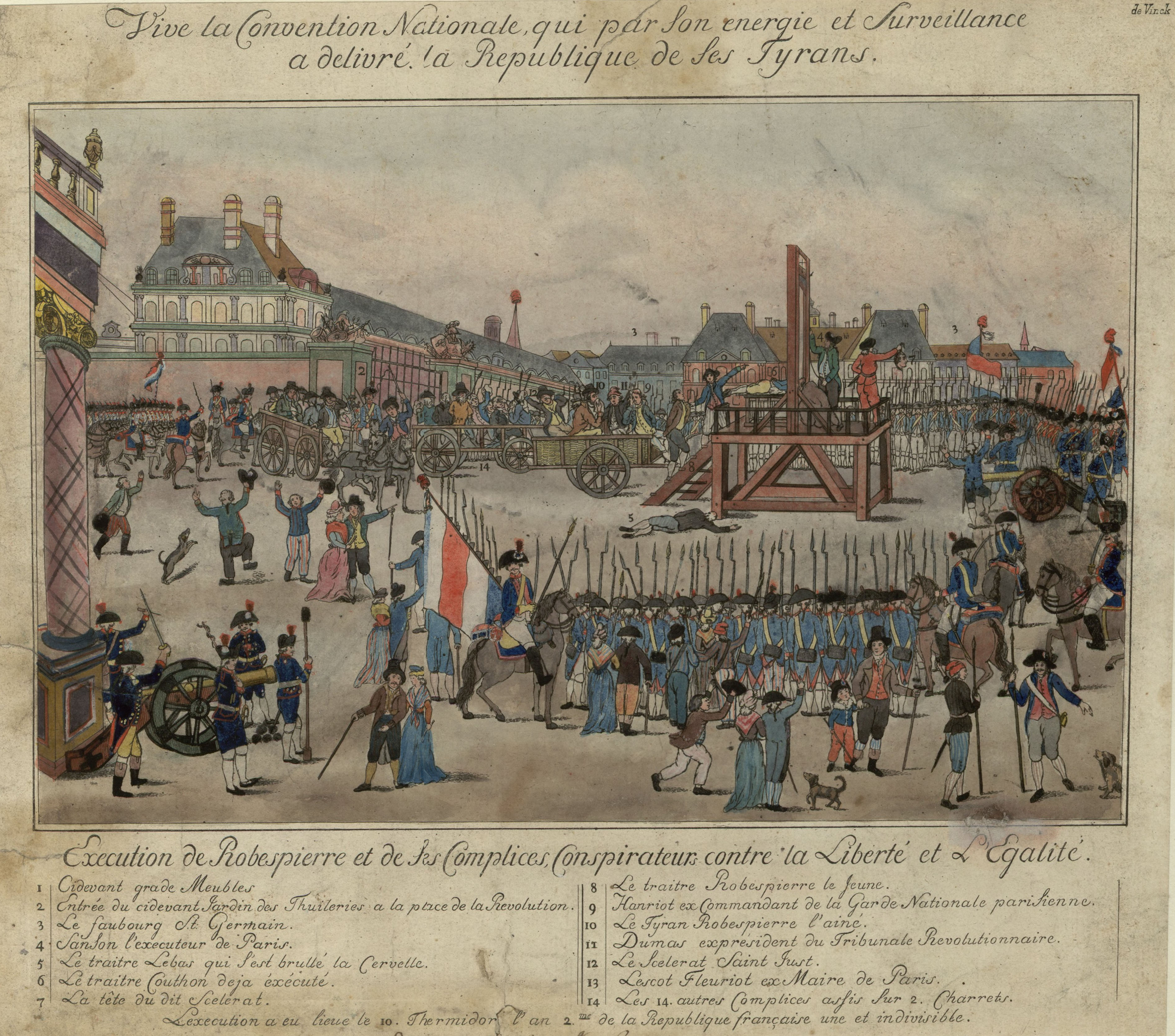 The execution of Robespierre and his supporters on 28 July 1794